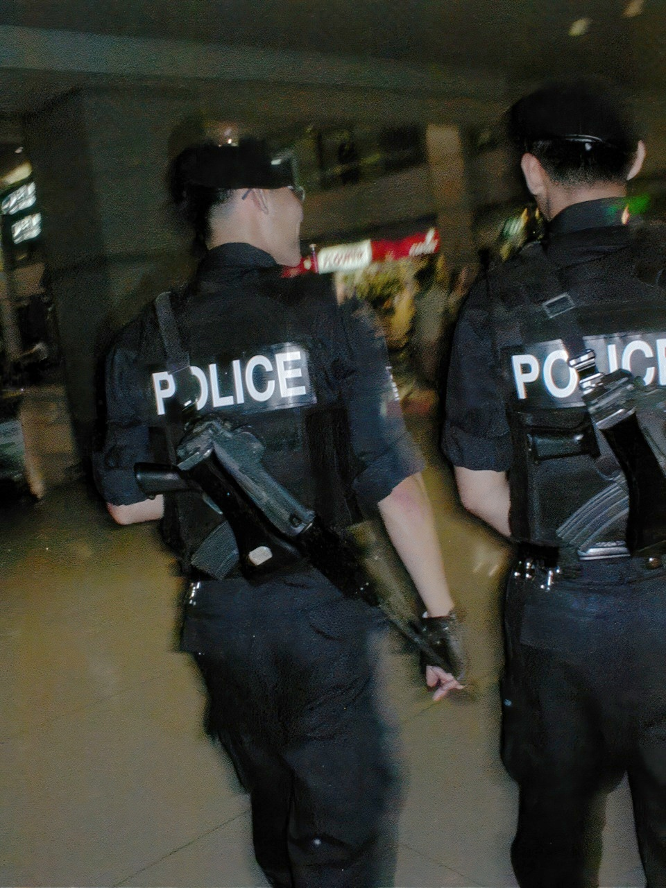 Combat Police officers armed with Daewoo K2s, slung on their backs. Note the folded stocks.